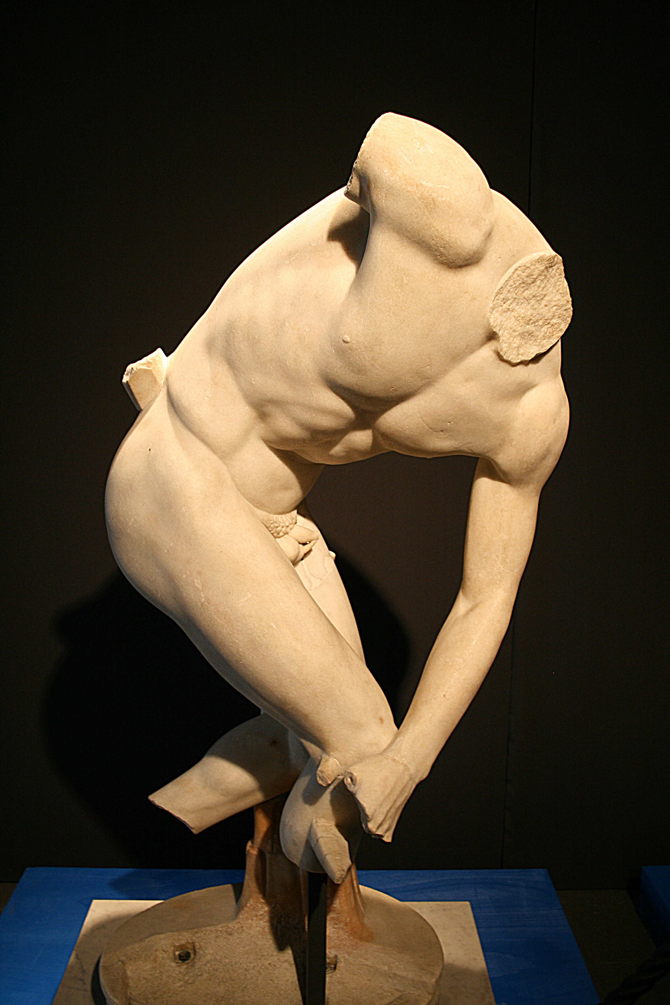 Castelporziano Discobolus. Marble, Roman artwork, reign of Hadrian (117–138 CE).